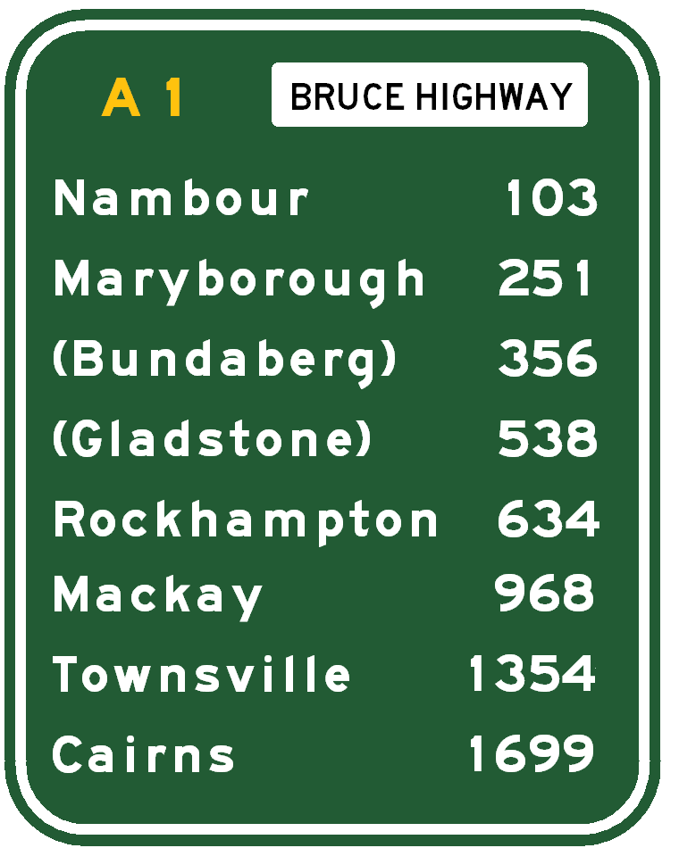 A1 Bruce Highway AD Sign from Brisbane.